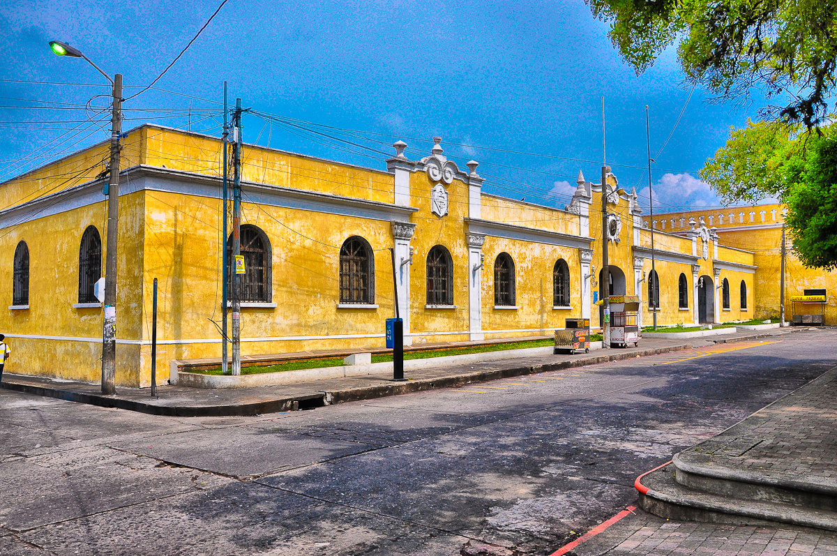 Streets in Mazatenango, Guatemala